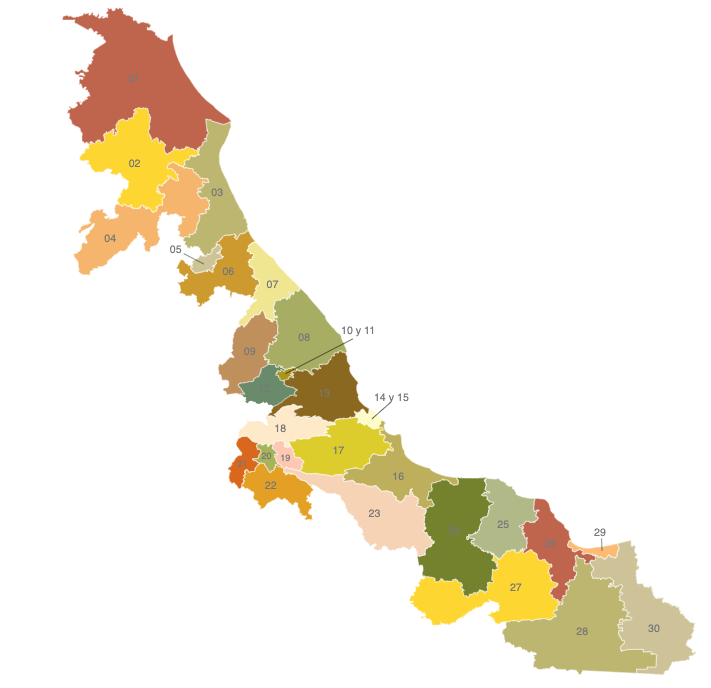 THIS IS THE ELECTORAL GEOGRAPHY OF VERACRUZ